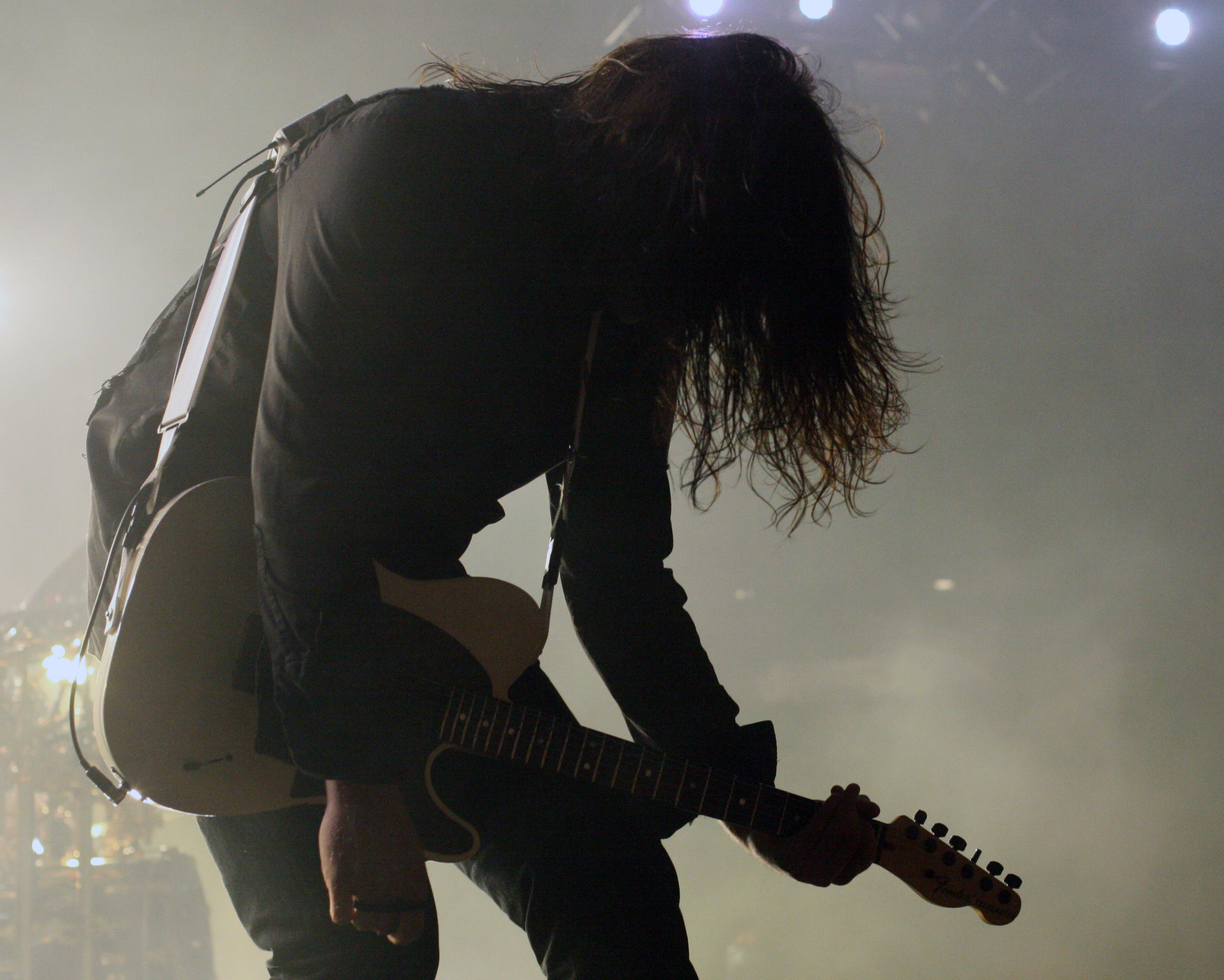 Jim Root of Slipknot performing on the Mayhem Festival 2008.